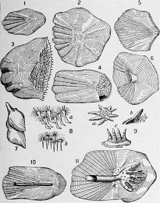 Chart showing 11 instances of fish scales.